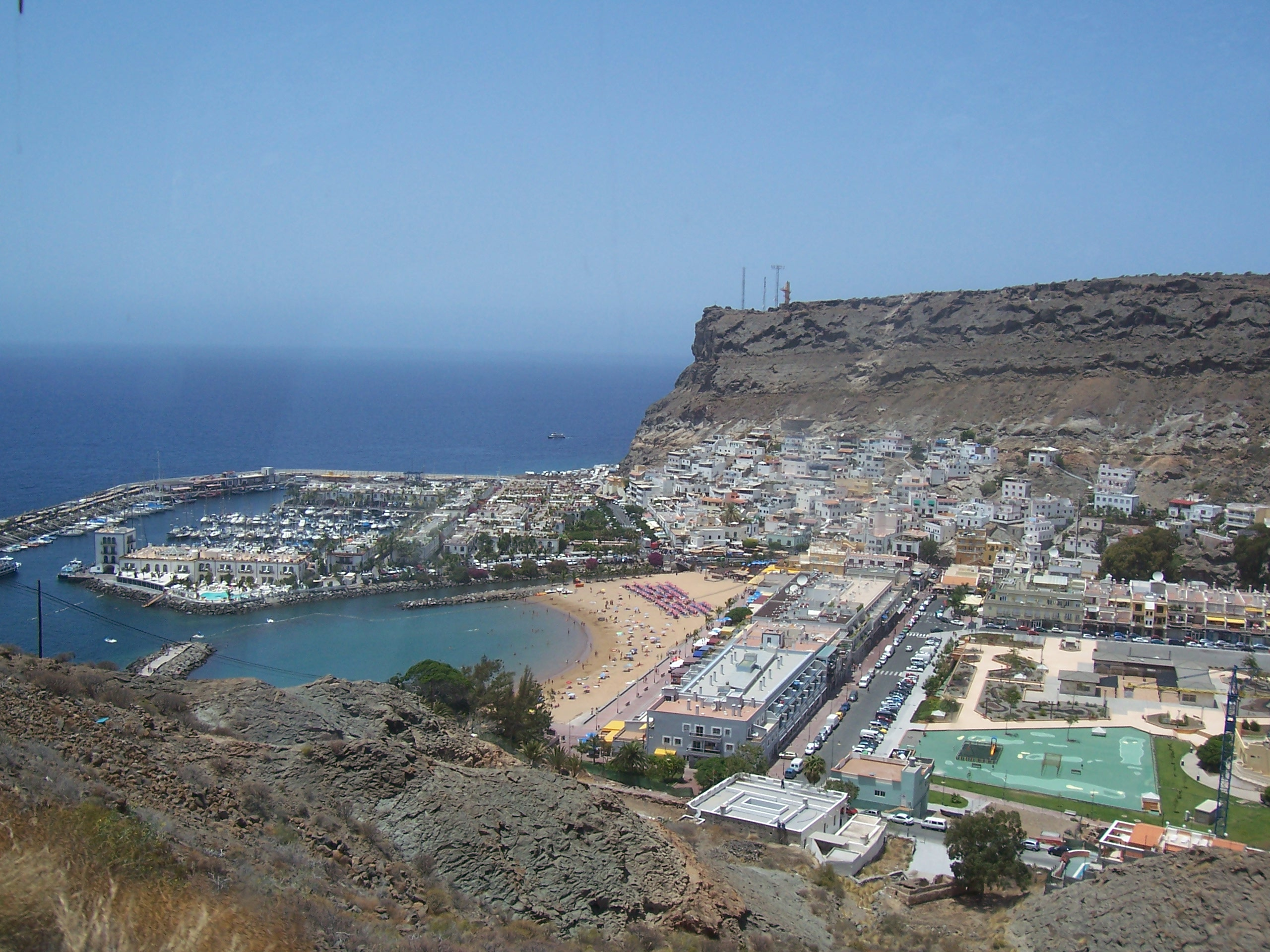 Puerto de Mogan, partial view from road. Gran Canaria, Canary Islands. Spain.